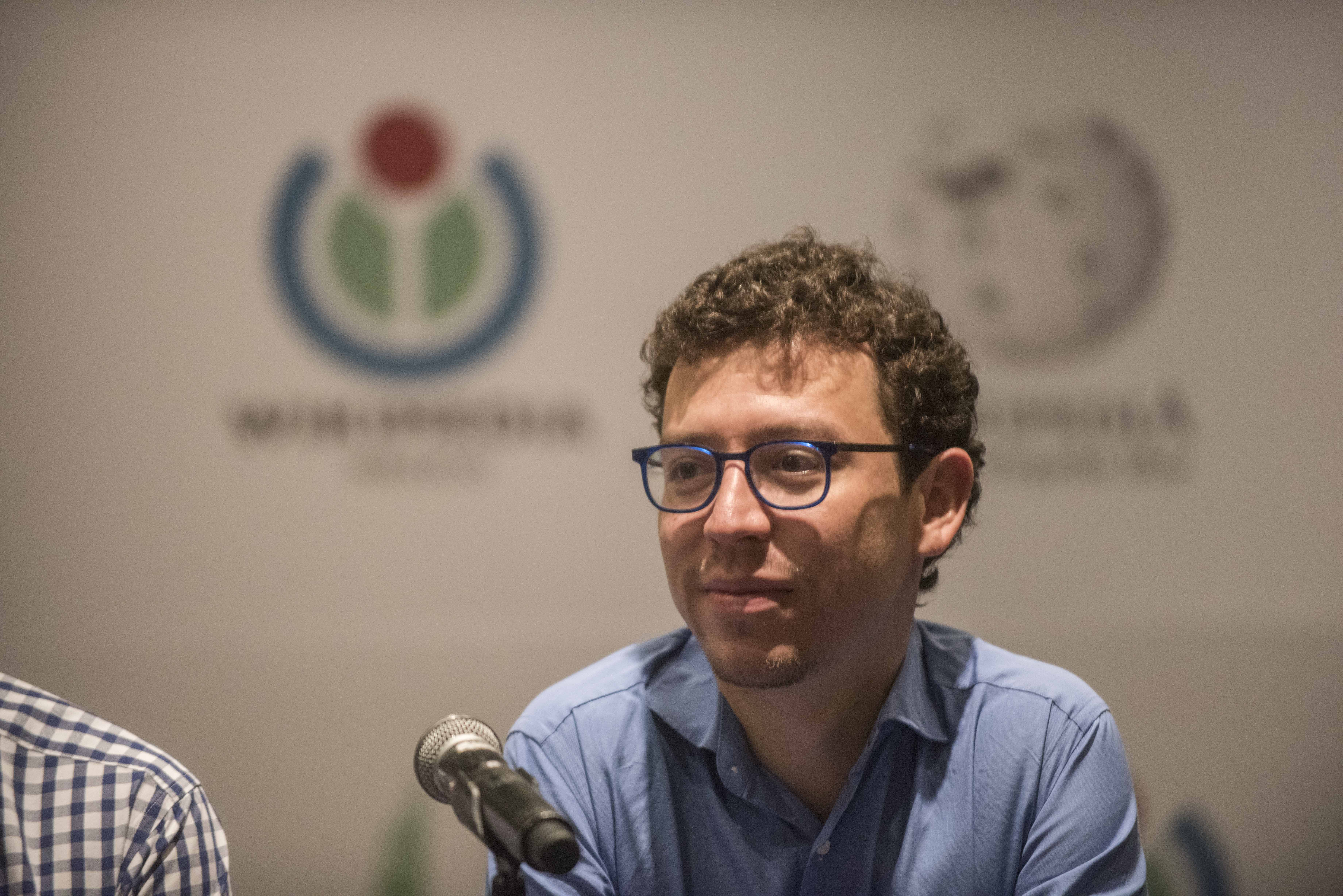 Luis Von Ahn. The second day of Wikimanía 2015 was also the second day of the Hackathon. A press conference was held with Ivan Martinez, Jimmy Wales, Luis Von Ahn, Geoff Brigham and Daniel Goldin Halfon